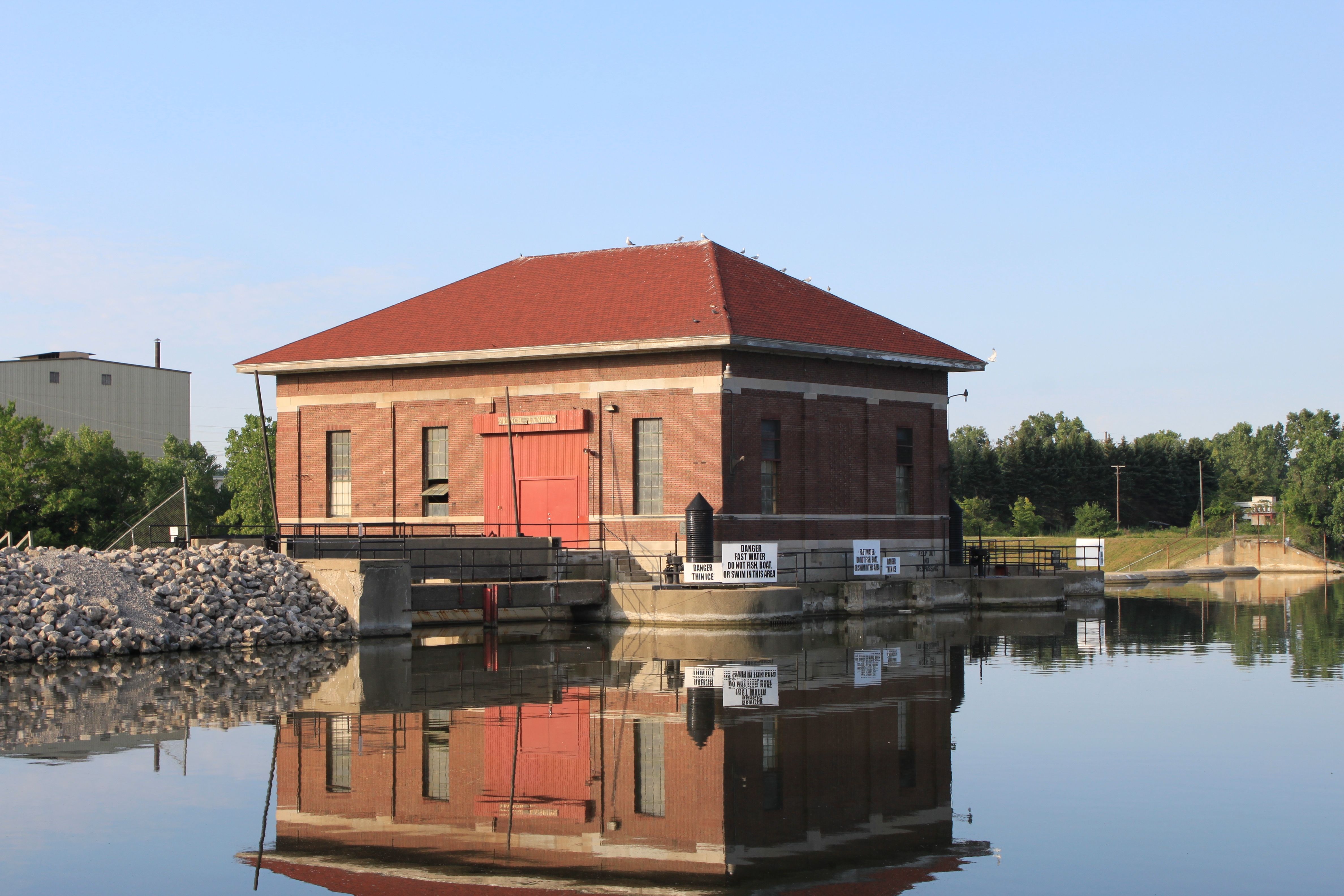 French Landing Dam and Powerhouse on the Huron River, 12100 Haggerty Road, Belleville, Michigan. The site is a Registered Michigan Historic Site.